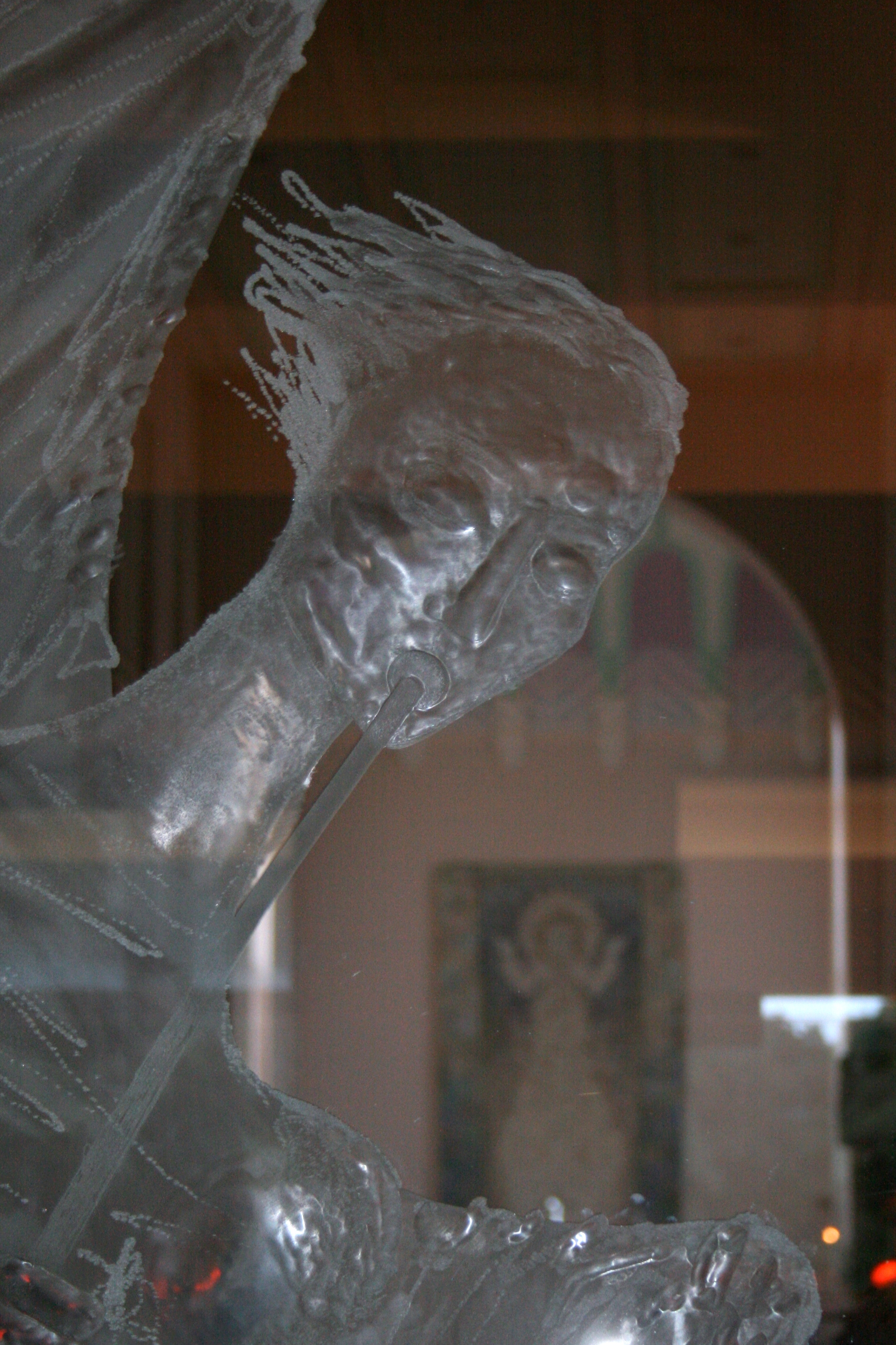 Photo of the Hutton Glass panel in the Wellington Cathedral of St Paul, New Zealand